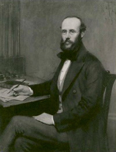 Hugh C. Baker - company´s founder of Canada Life